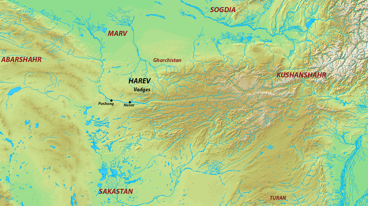 Map of the Sasanian province Harev and its surroundings. Map taken from DEMIS Mapserver, which is public domain, the rest is self-made.